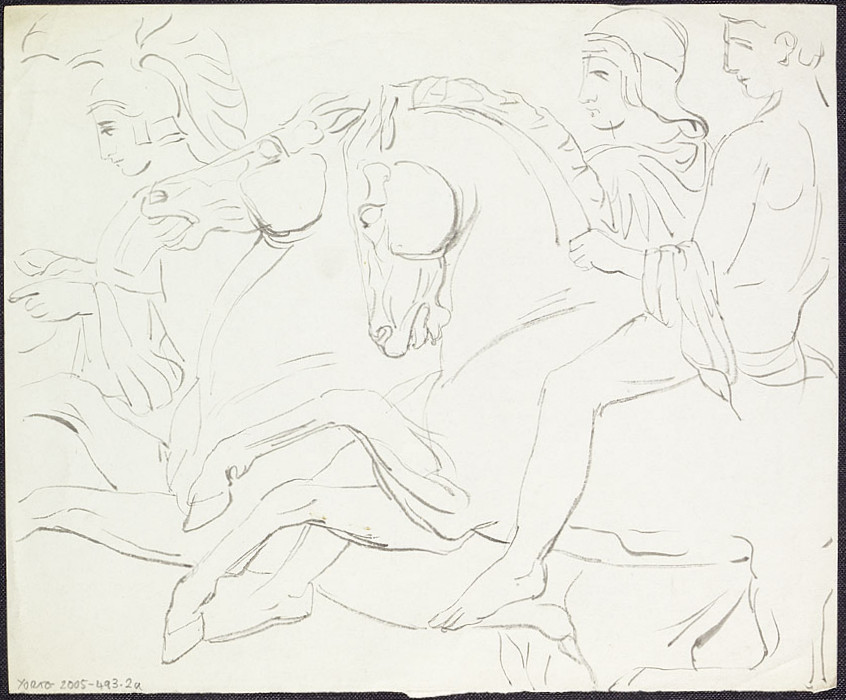 Ink sketches of the Elgin Marbles, including studies of figures, groups and horses from the frieze, metopes and pediment.